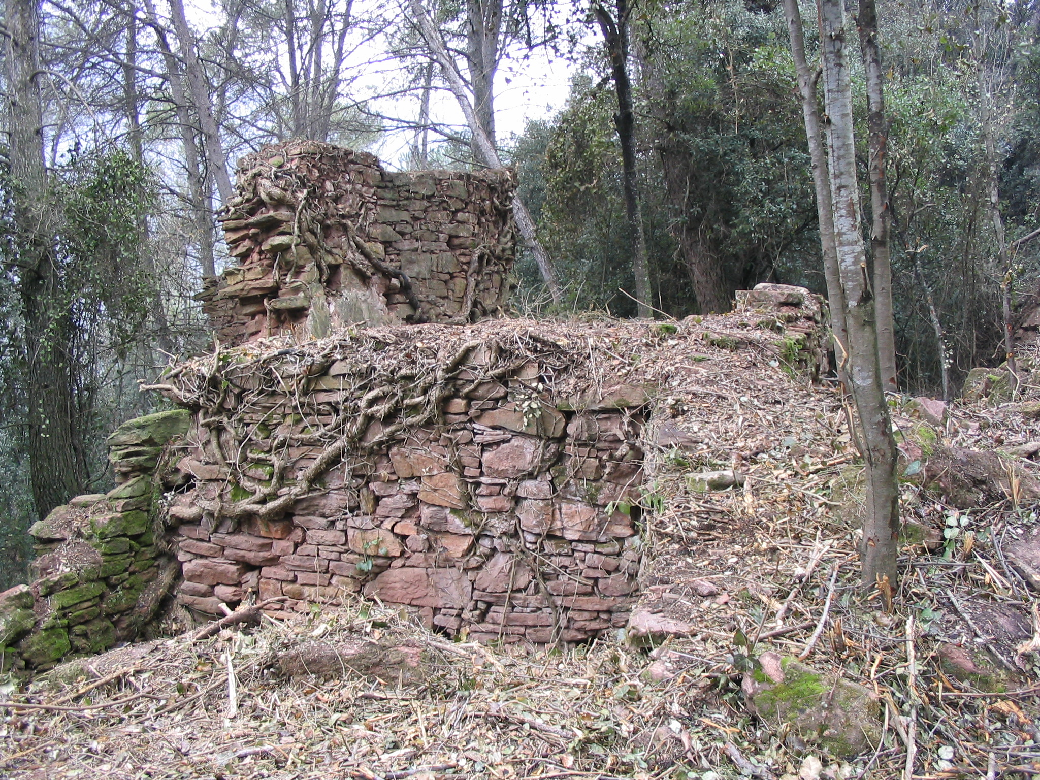 Cal Frare del Serrat, Ruins, XVII century, Tagamanent (Catalonia)